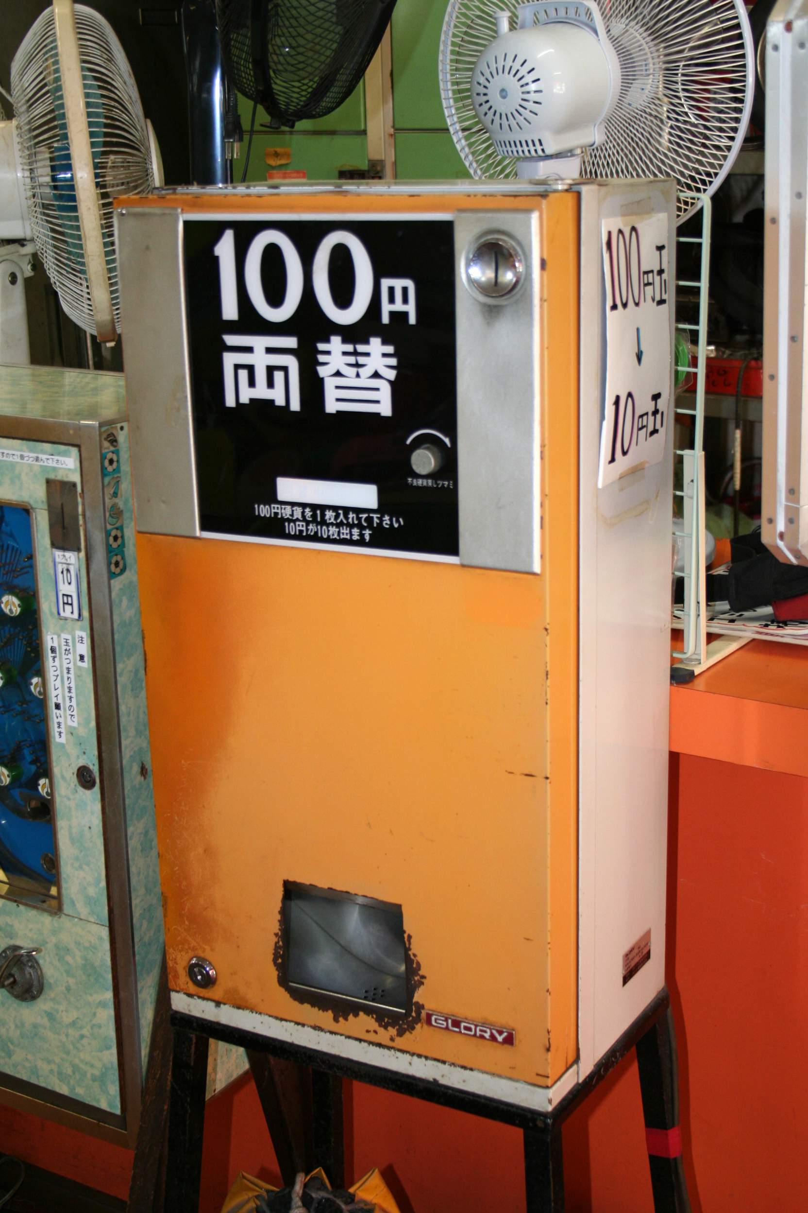 Money changer